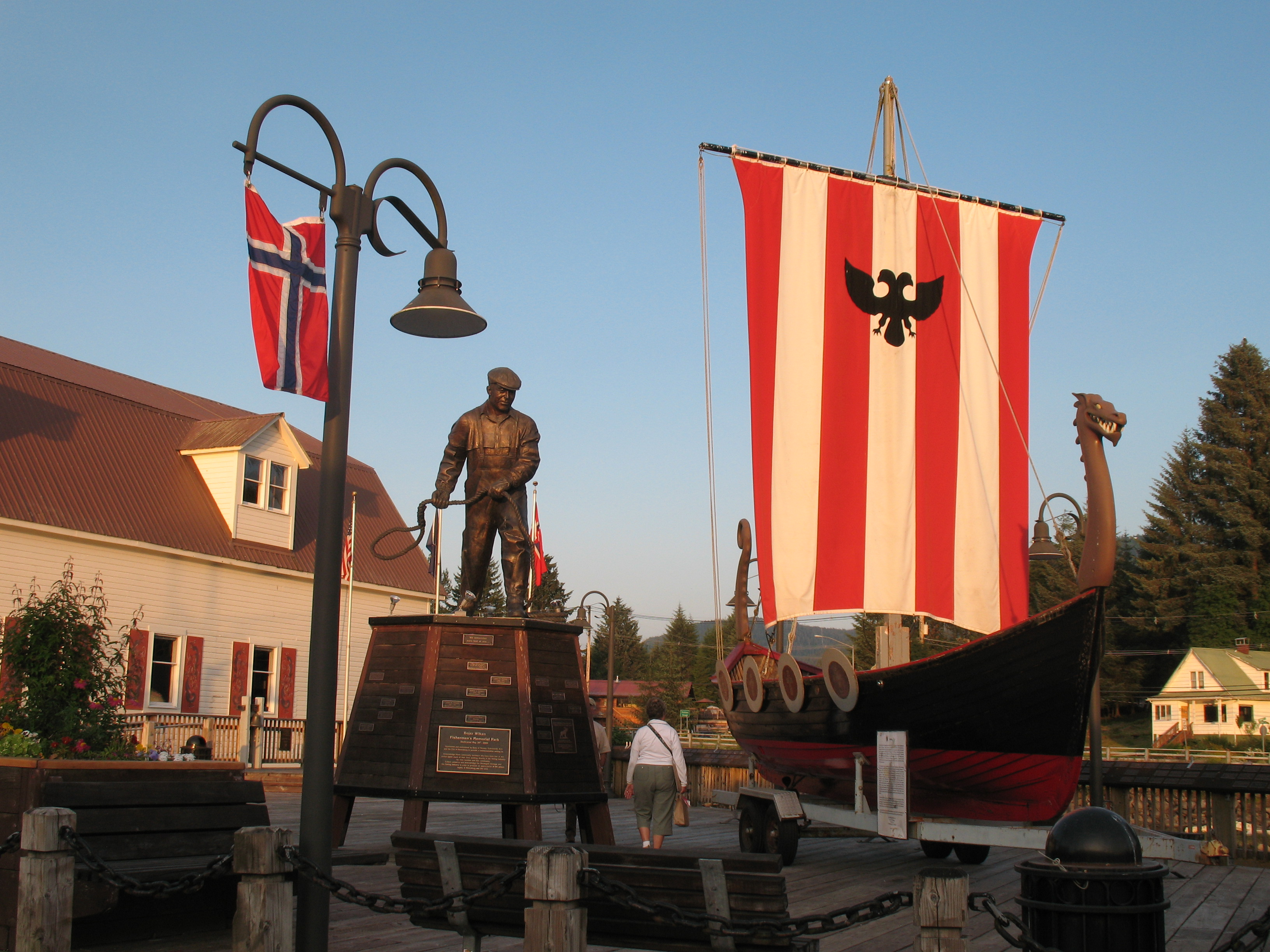 Fishermen's Memorial Park in Petersburg, Alaska, with Viking "Valhalla" ship and statue honoring the fishermen of norwegian orgin